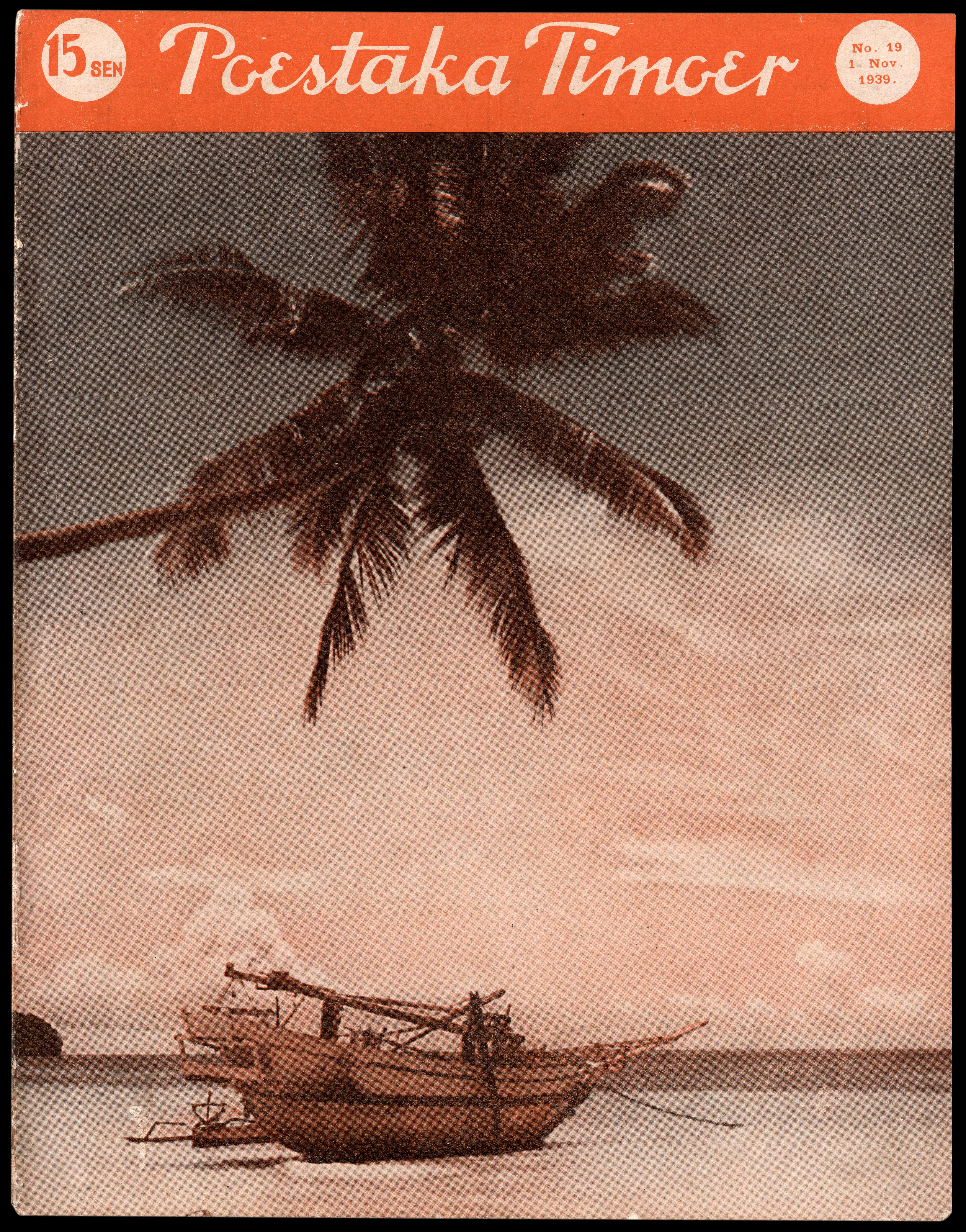 Cover of Poestaka Timoer issue 19, 1 November 1939.